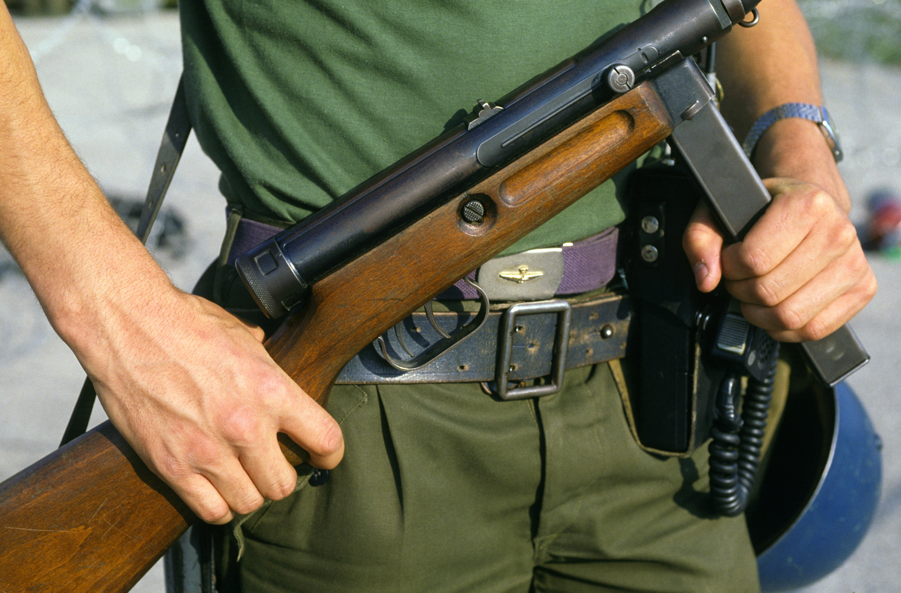 A model 38/49 Beretta submachine gun carried by an Italian soldier patrolling the perimeter of a 6913th Electronic Security Squadron mobile installation during the Electronic Security Command Exercise DISPLAY DETERMINATION '85.